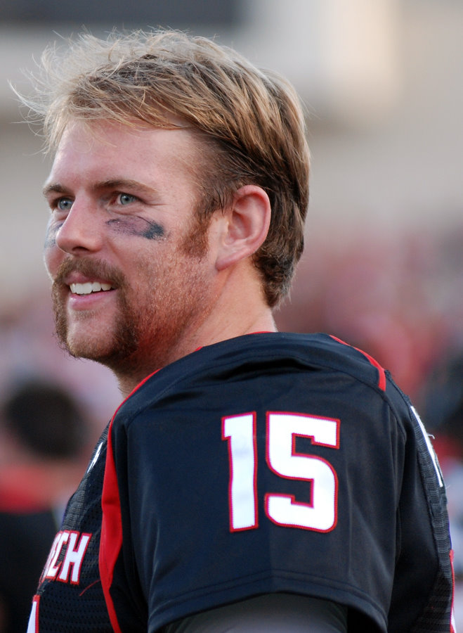 Photo Credit: Jeff TinnellTexas Tech Red Raiders football player Taylor Potts on 09-05-2009 during the game against North Dakota